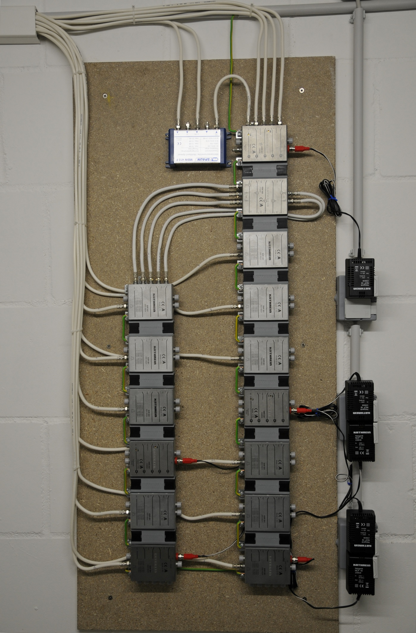 Example of a working Unicable system for 11 parties using Kathrein EXR matrices.